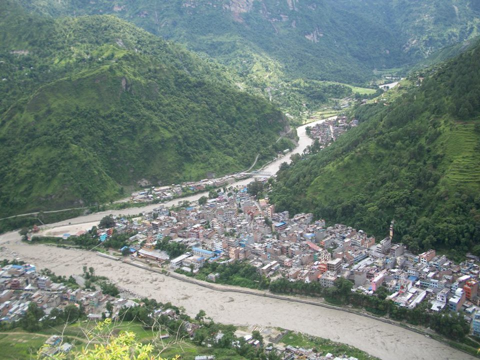 Beni Bazaar in 2012